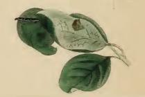 Stainton’s Natural History of the Tineina (1855–1873): Athrips mouffetella a sprig of honeysuckle eaten by larva